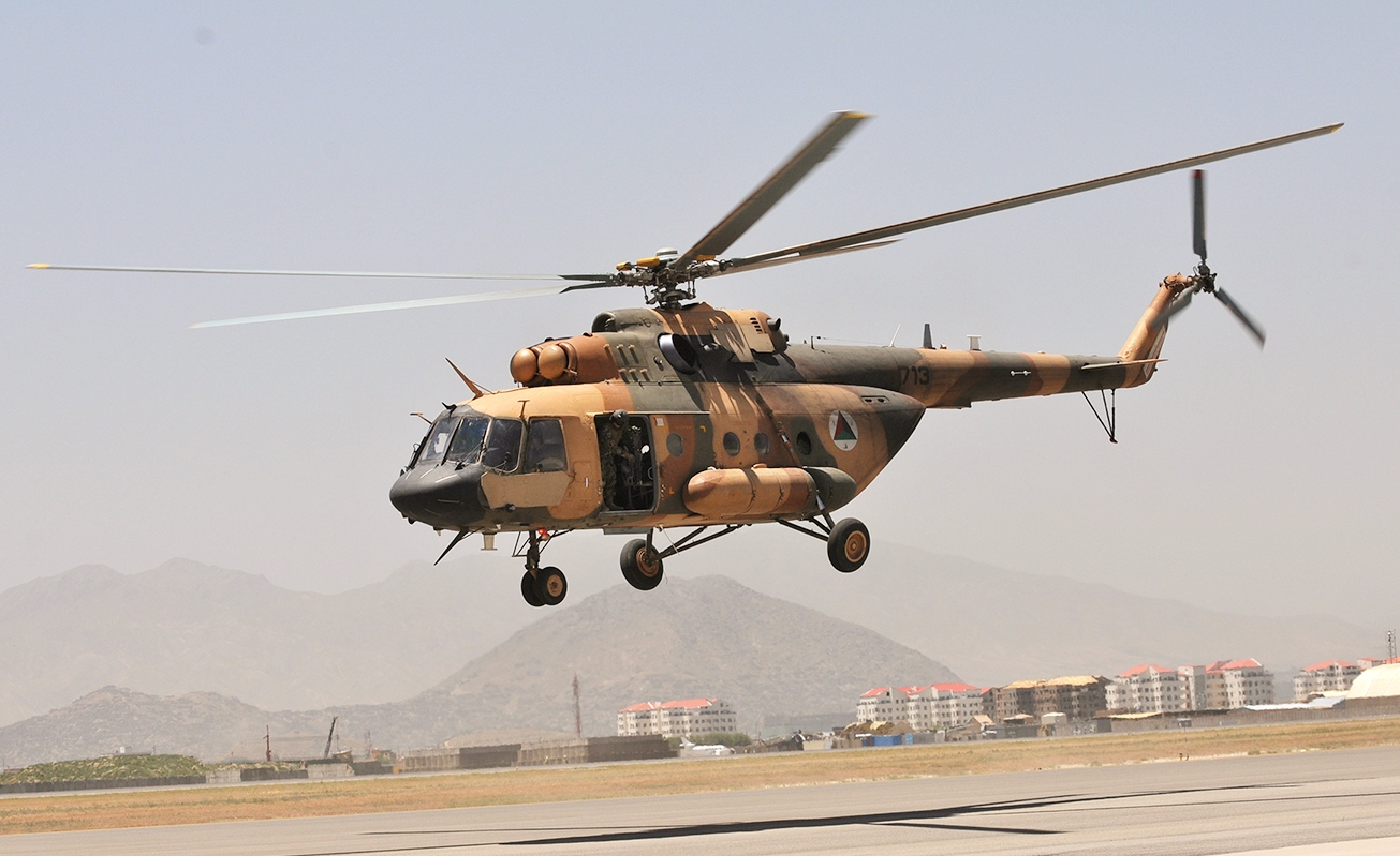 An Afghan Mi-17 helicopter flown by Lt. Col. Bakhtullah, 377th Afghan Air Force Squadron commander, takes off for an air-assault training flight, May 29 from Kabul International Airport